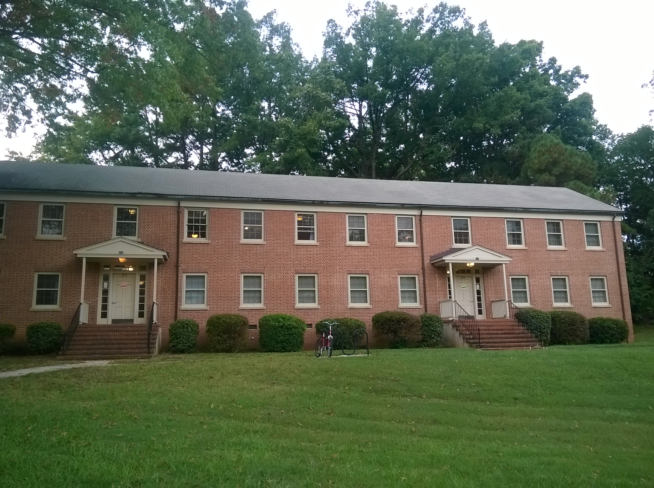 Odum Village Apartment 203 and 205, University of North Carolina at Chapel Hill